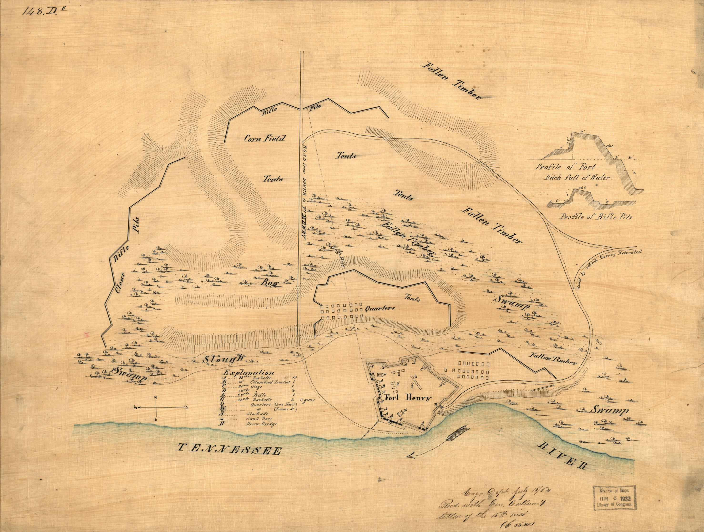 relief map / plan of Fort Henry and its outworks.